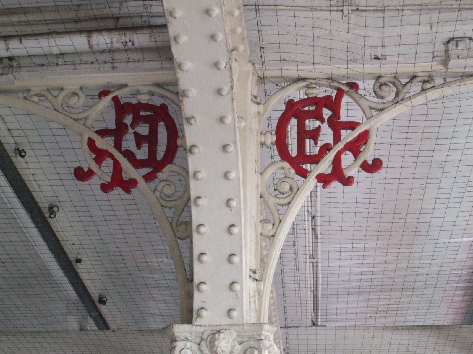 GER (Great Eastern Railway) bracketry at Newbury Park tube station, dating from the early 20th century.